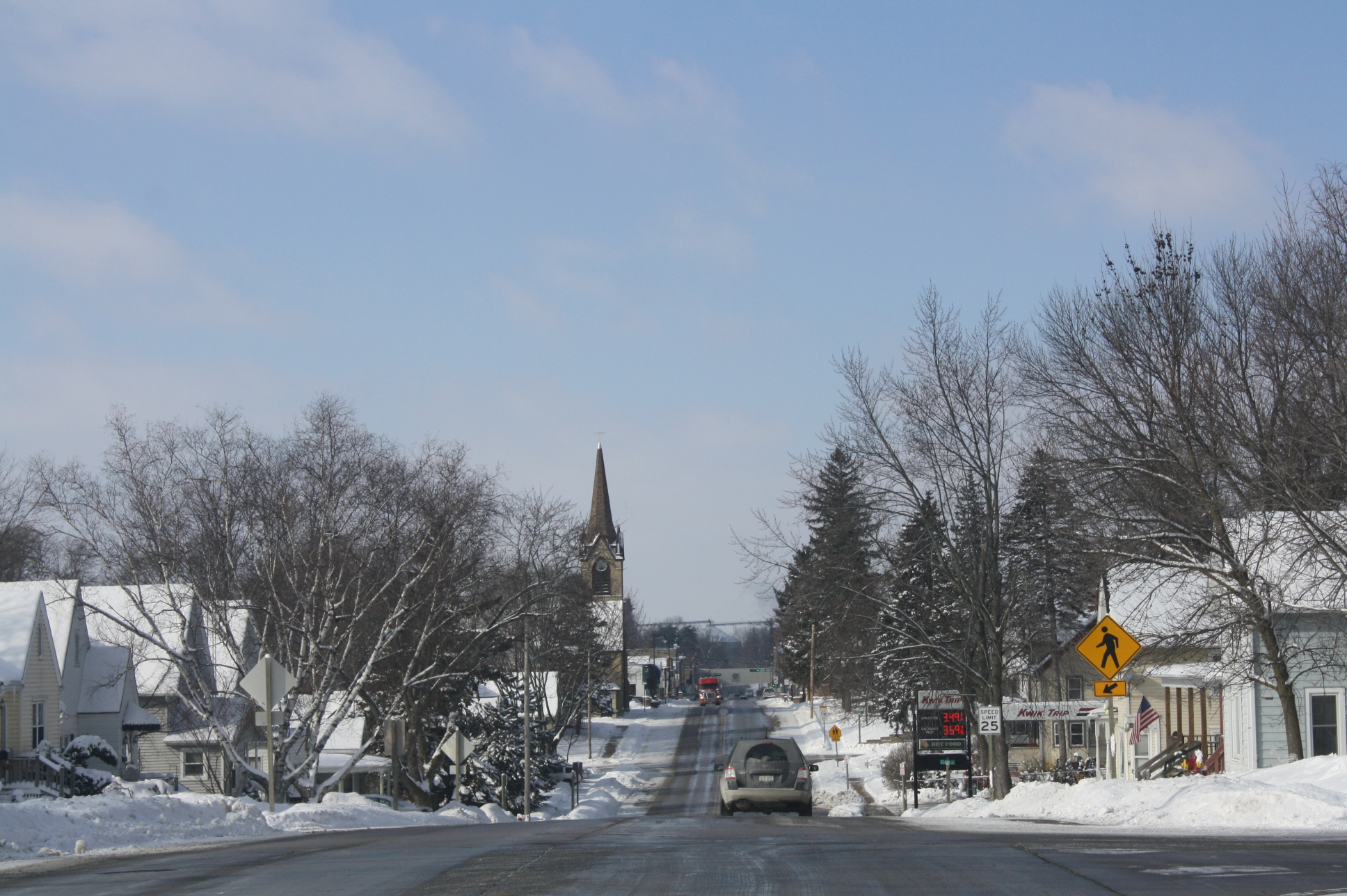 Looking west at downtown Horicon, Wisconsin on Wisconsin Highway 28.